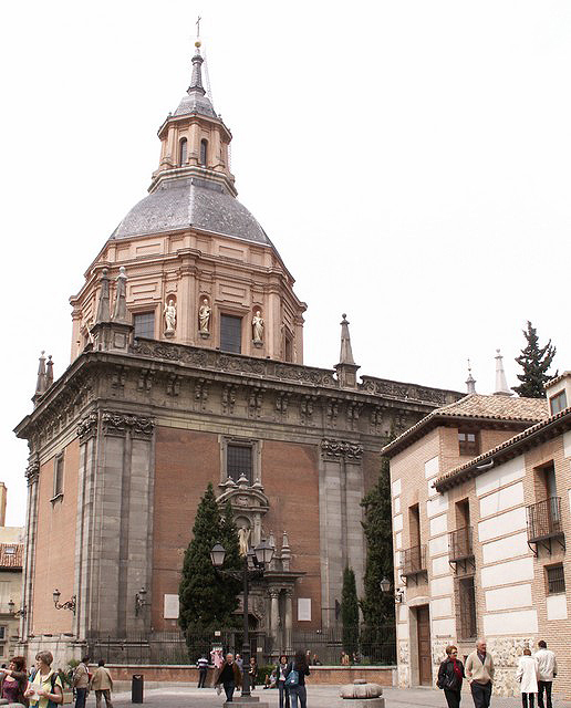 Capilla de San Isidro ("Saint Isidore's Chapel") at the Iglesia de San Andrés ("St. Andrew’s Church") in Madrid (Spain). Chapel was projected by Pedro de la Torre and José de Villarreal and built between 1642 and 1669. It was restored three times between 1942 and 1991.